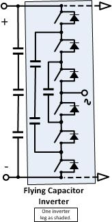 Simplified flying capacitor inverter topology. Adapted from part of slide 35 of Paes, Richard (June 2011). "An Overview of Medium Voltage AC Adjustable Speed Drives . . ." & b) Fig. 1.3-2, p. 9 of Wu, Bin (2006) "High-power converters and AC drives'